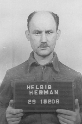 Hermann Helbig, SS-Hauptscharführer, Charge of crematory in the concentration camp of Buchenwald. In the Buchenwald Camp Trial (part of the Dachau Trials) he was sentenced to death by hanging.